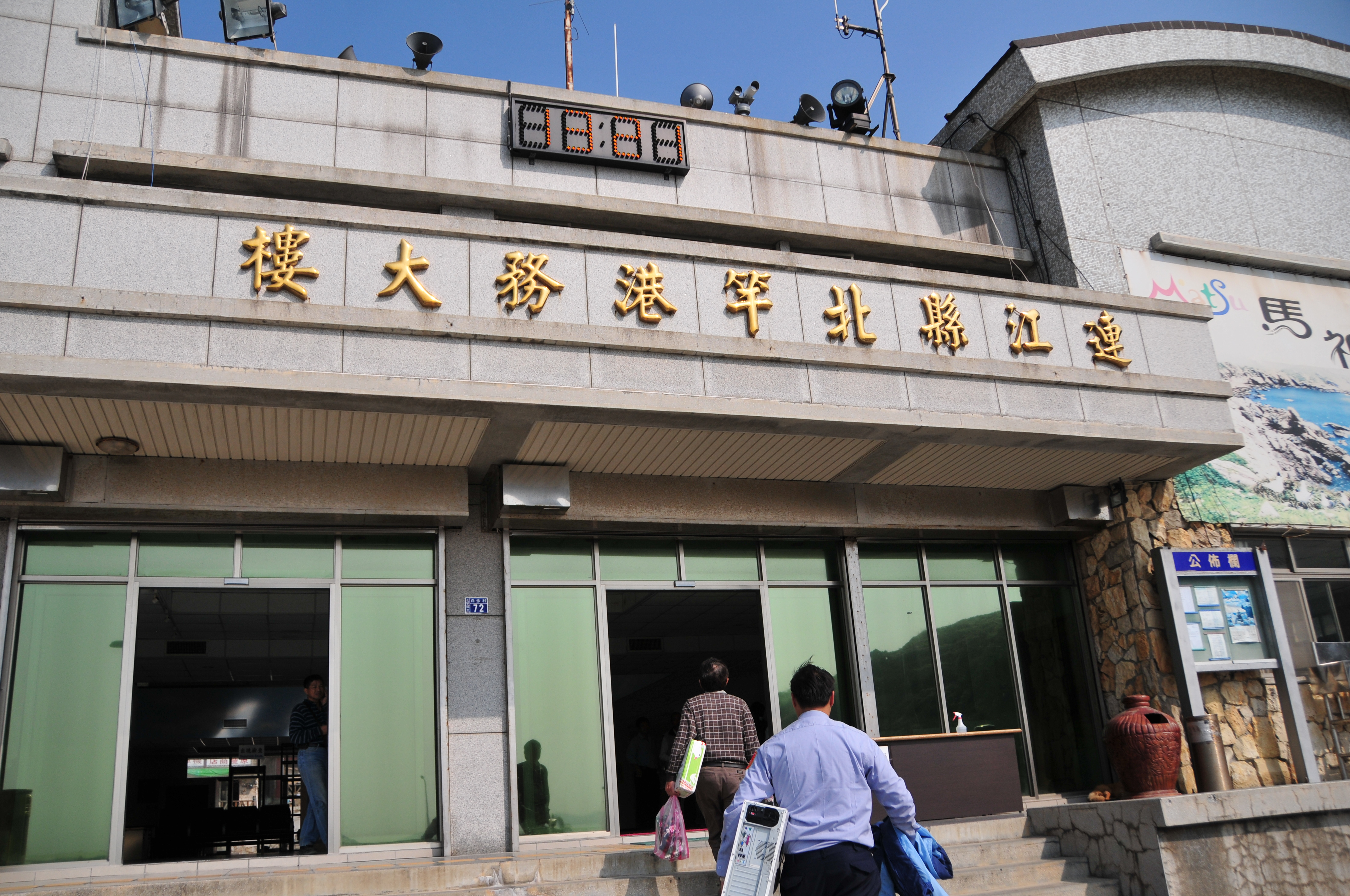 Beigan Harbor Building